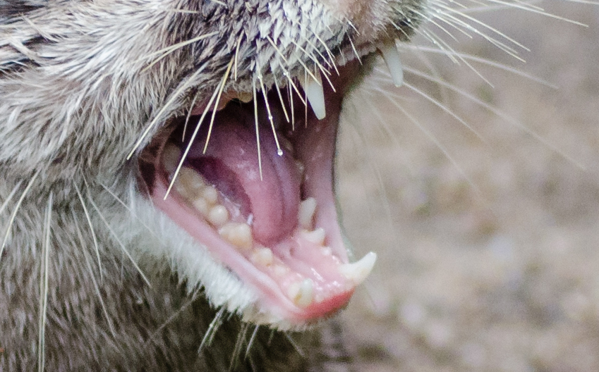 Oriental small-clawed otter(Aonyx cinereus)